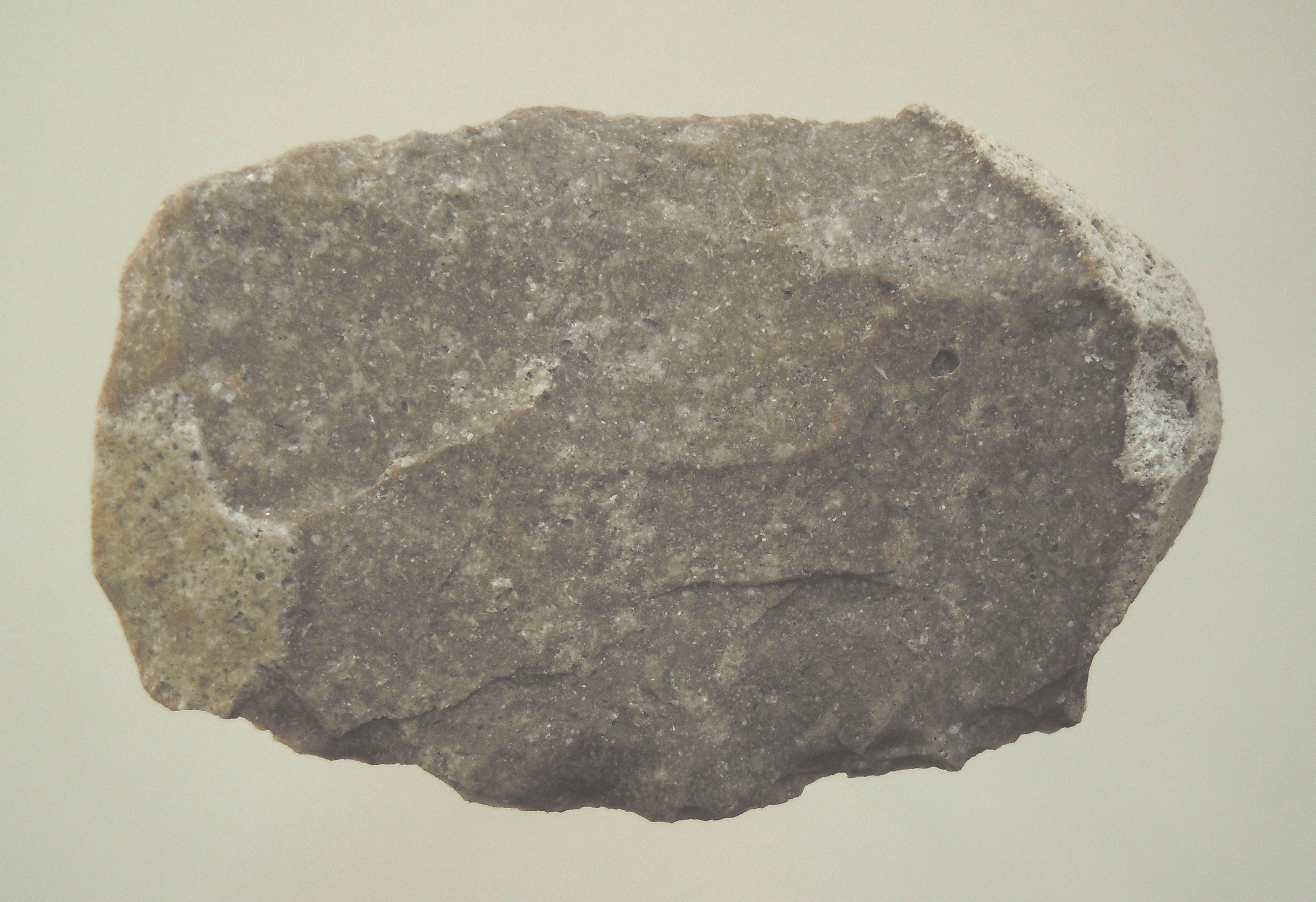 Dolmen culture flint preform